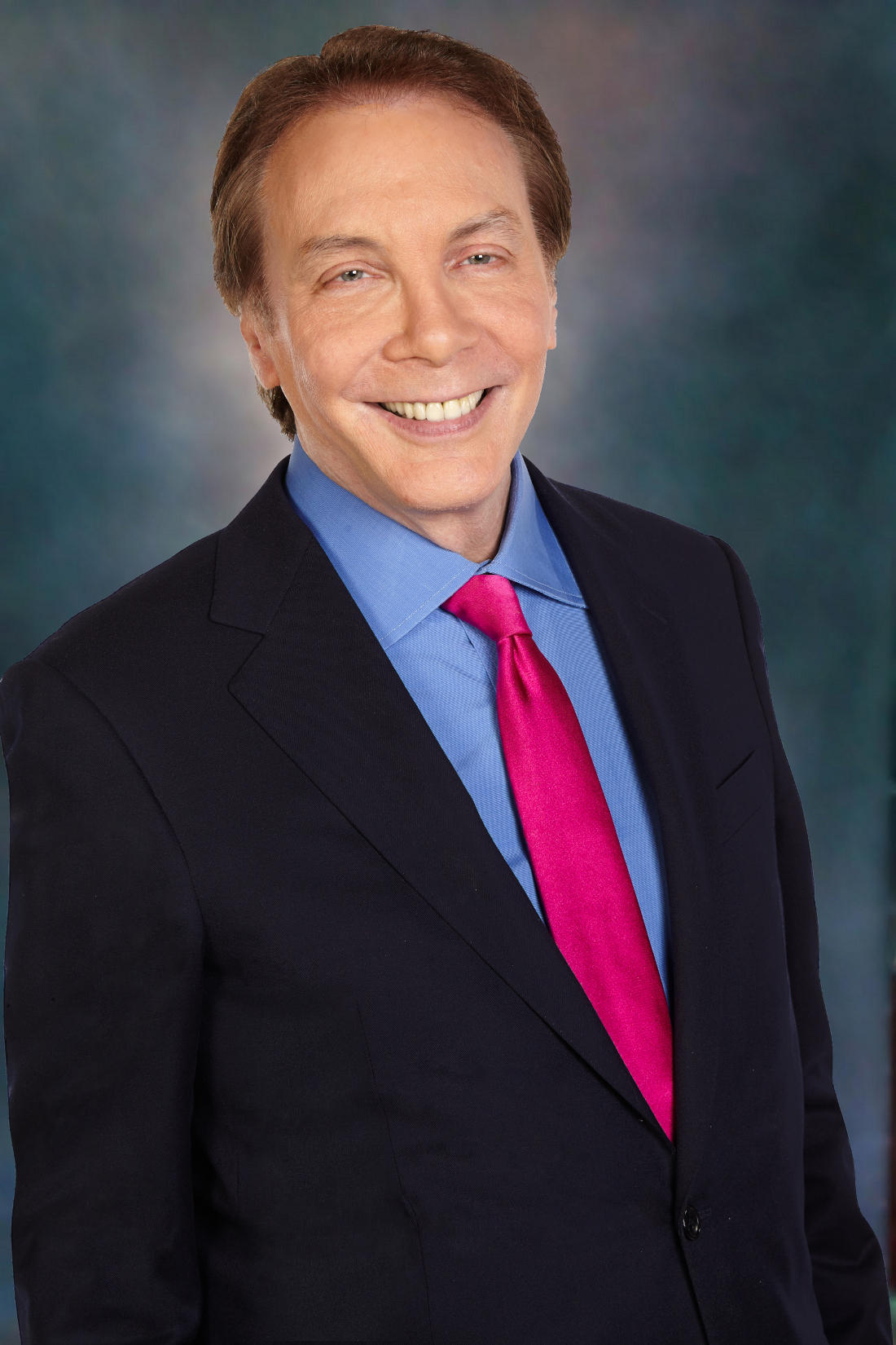 Alan S. Colmes, 2014. Pure white background replaced with commercial-style portrait backdrop and size reduced.